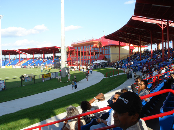 Spectators at MAQ T20 International Cricket Tournament at Central Broward Regional Park Main Event Field